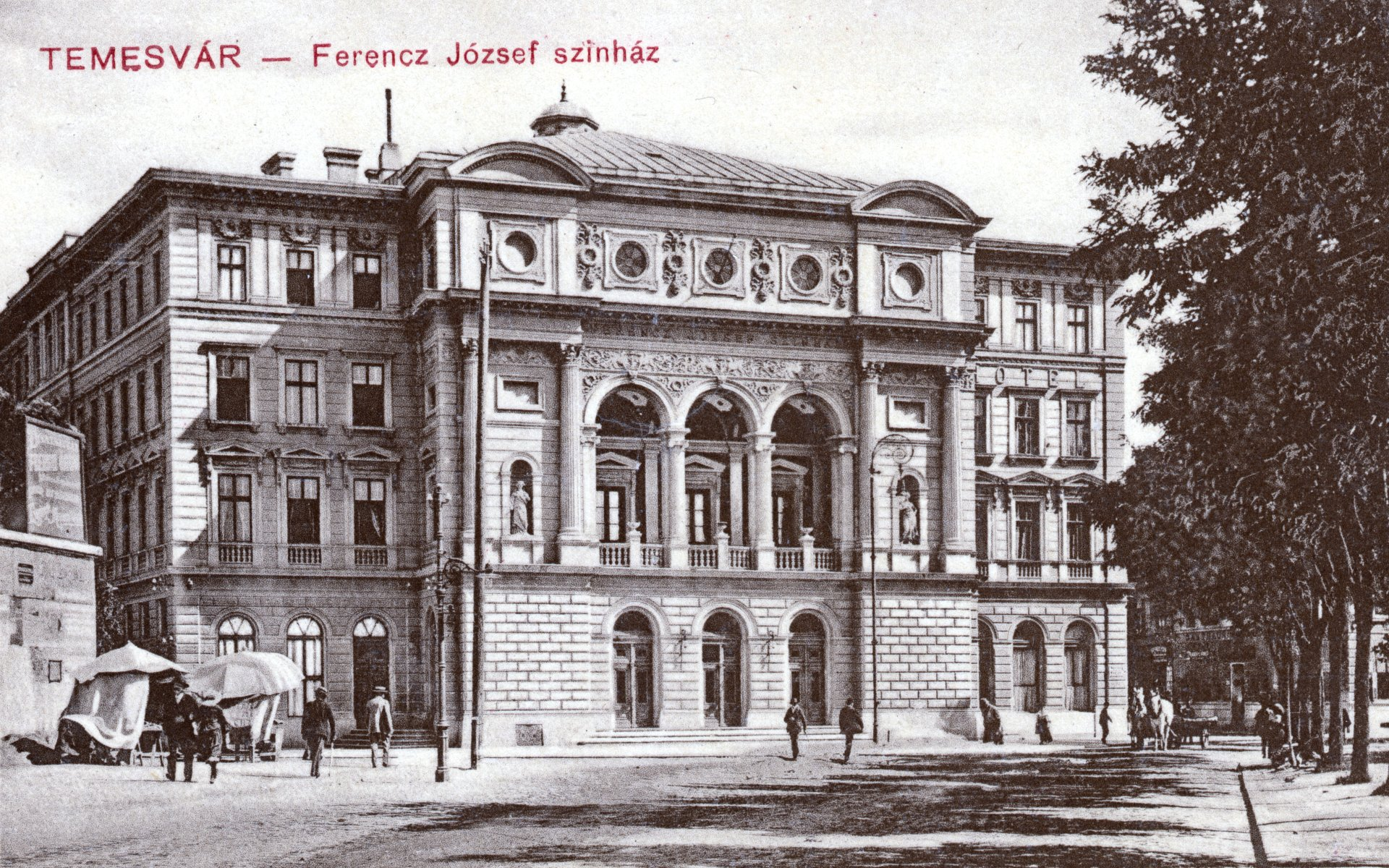 Franz Joseph Theater, 1905, Timișoara, Romania, built 1875.